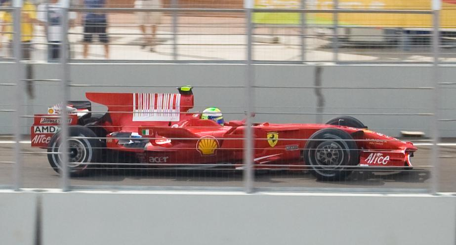 Felipe Massa driving for Scuderia Ferrari at the 2008 European Grand Prix.